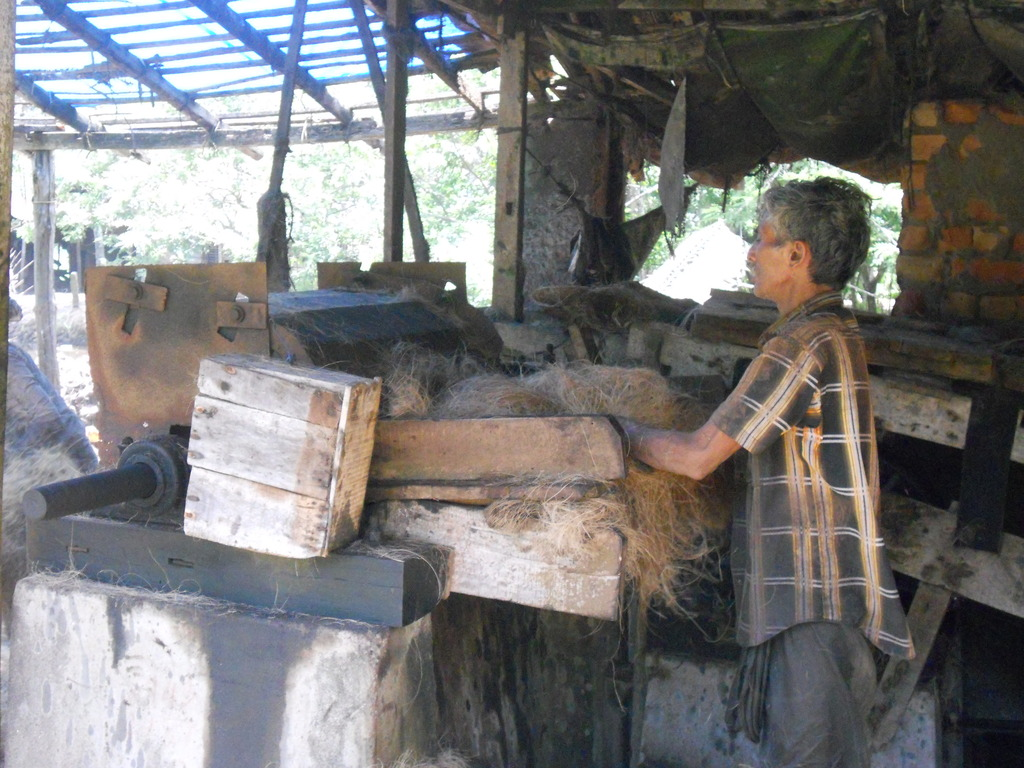 Coir industry scene in Kerala This media file is uploaded with India loves Wikipedia event.